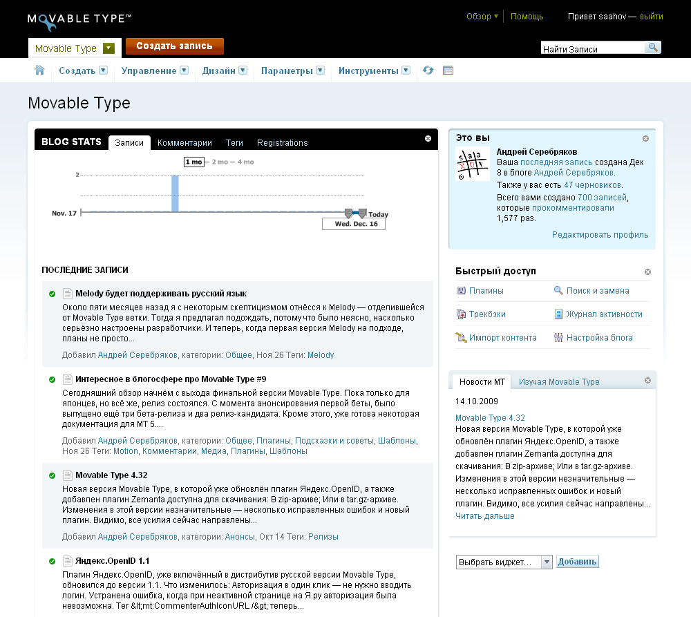 Movable Type Blog Admin